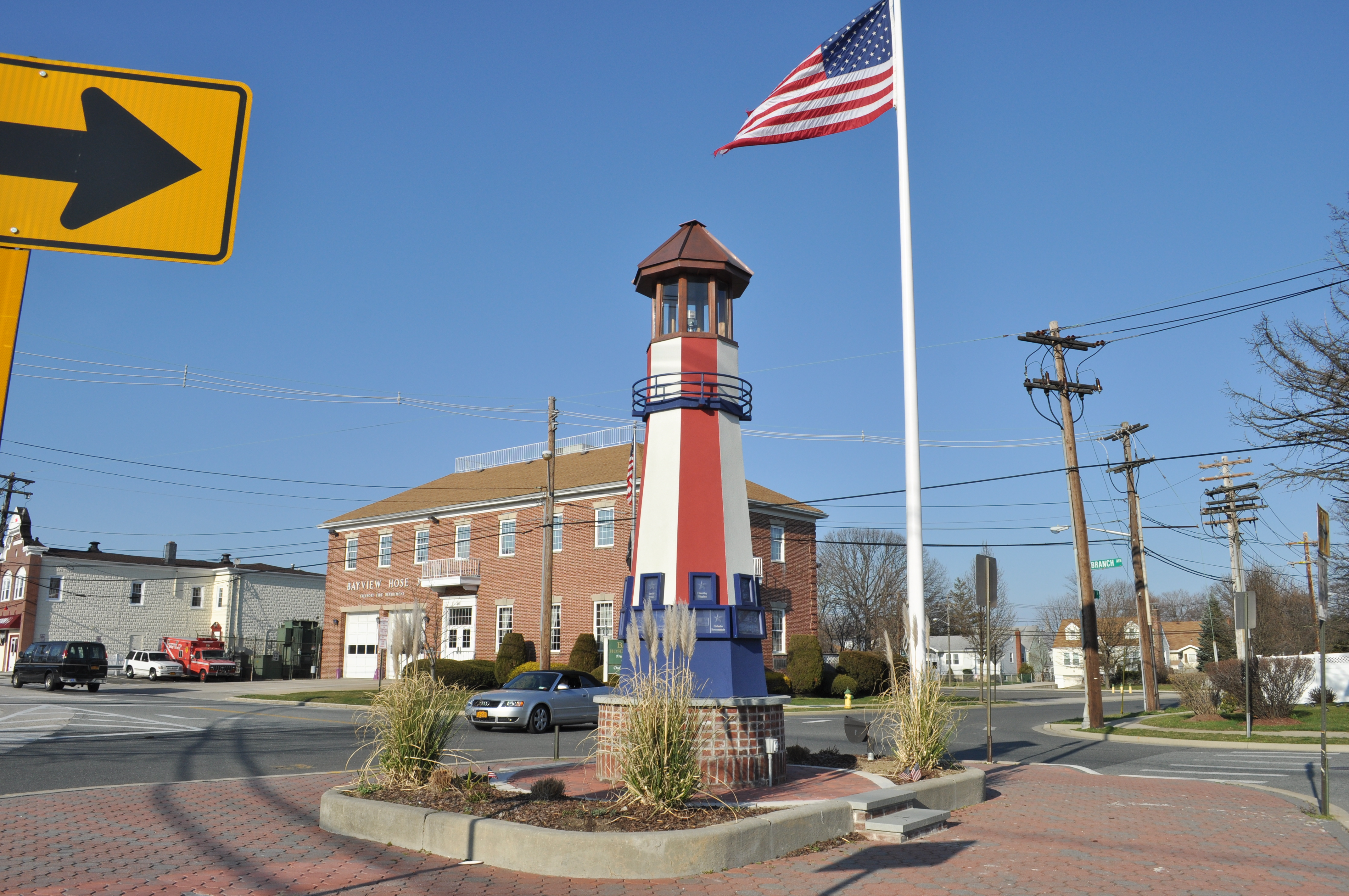 9/11 Memorial, in the traffic circle where South Bayview Avenue, Branch Avenue, and Ray Street come together, Freeport, Long Island, New York. Hook & Ladder No. 1 in background.